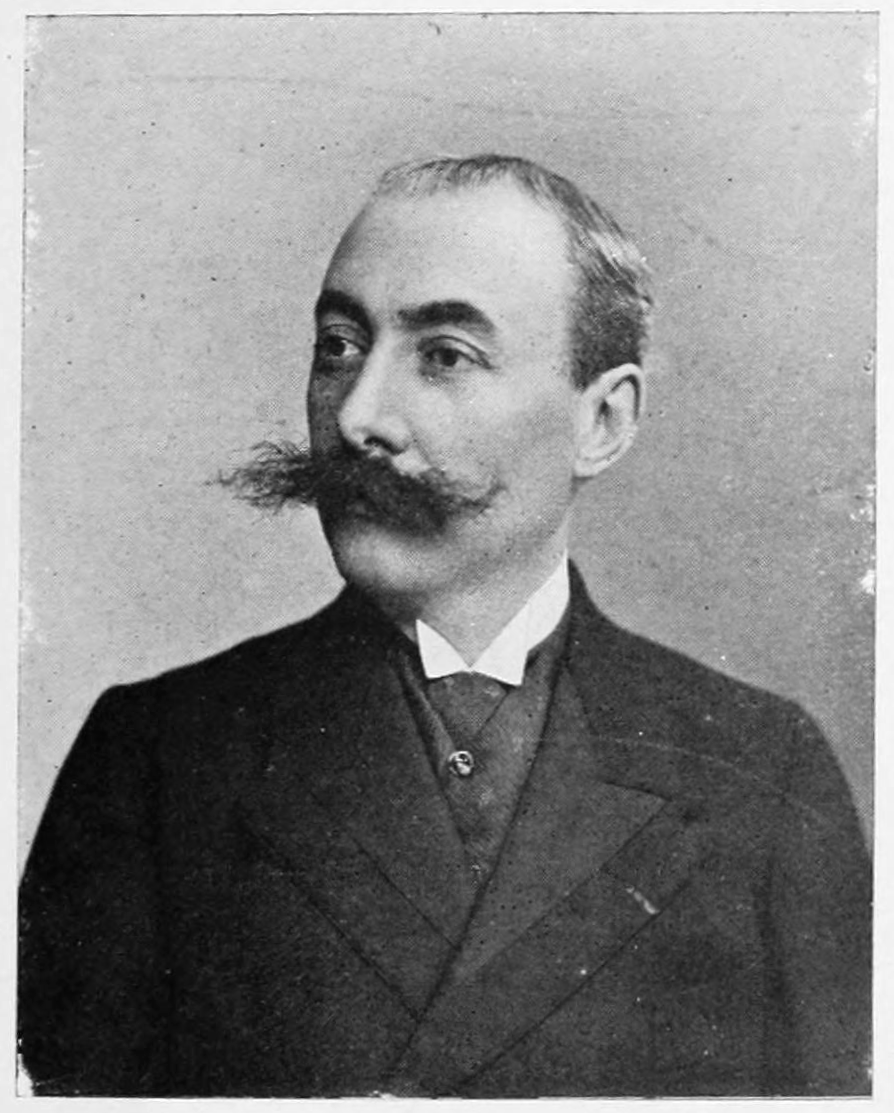 book illustration